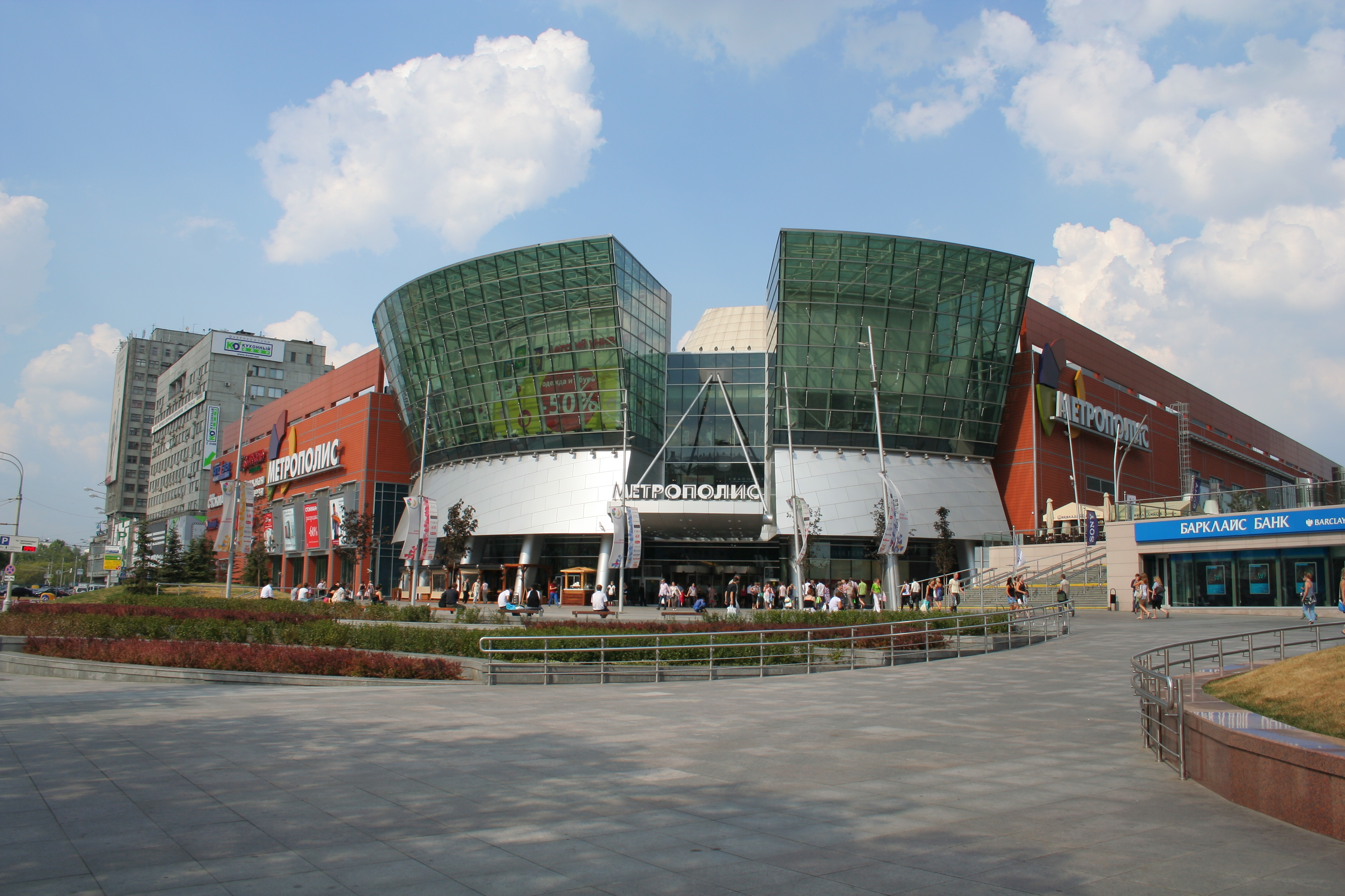 Metropolis shopping mall in Moscow, Voikovsky District.